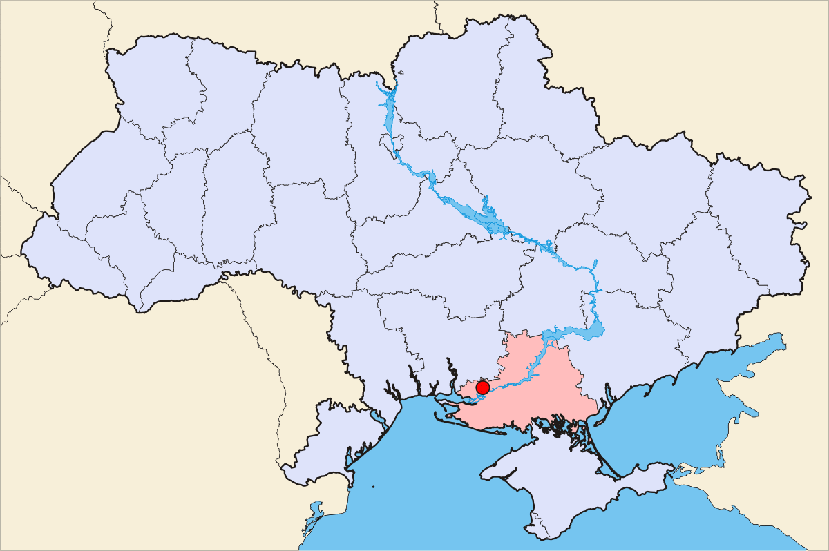 Description = Kherson geographical position Source = own work, Skluesener Date = 20.01.2006 Author = Skluesener Credits = Colours chosen according to a map of steschke